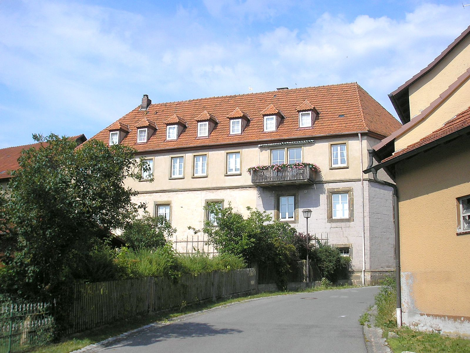 Fischbach castle near Ebern (Landkreis Haßberge, Lower Franconia, Germany). View from the west